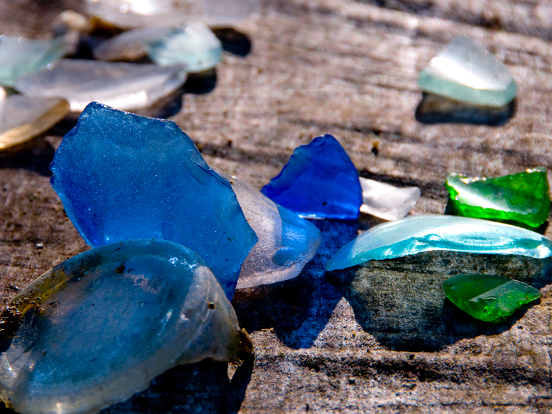 Colorful green and blue beach glass. Also referred to as river glass. Found in a river in eastern PA. Note the less tumbled edges than some pieces found in the sea.